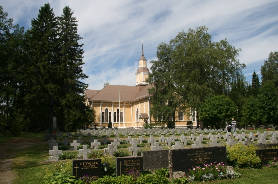 Pyhäjärvi Church in Pyhäjärvi, Finland.